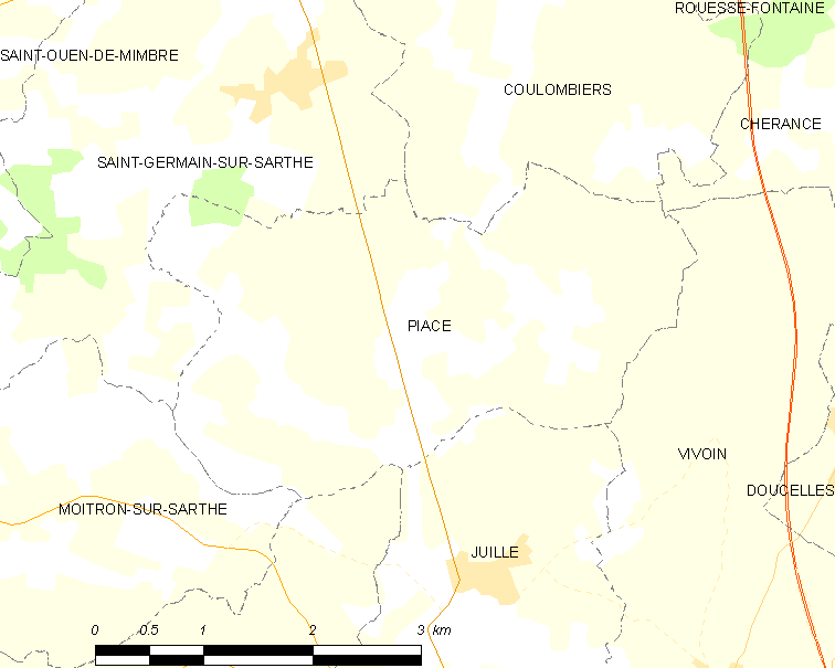 Map of French municipality